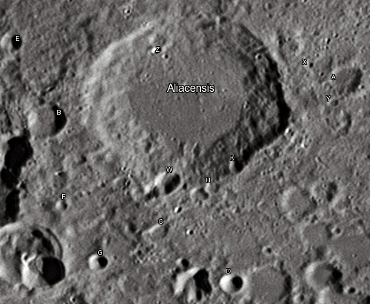 Aliacensis lunar crater as seen from Earth with satellite craters labeled